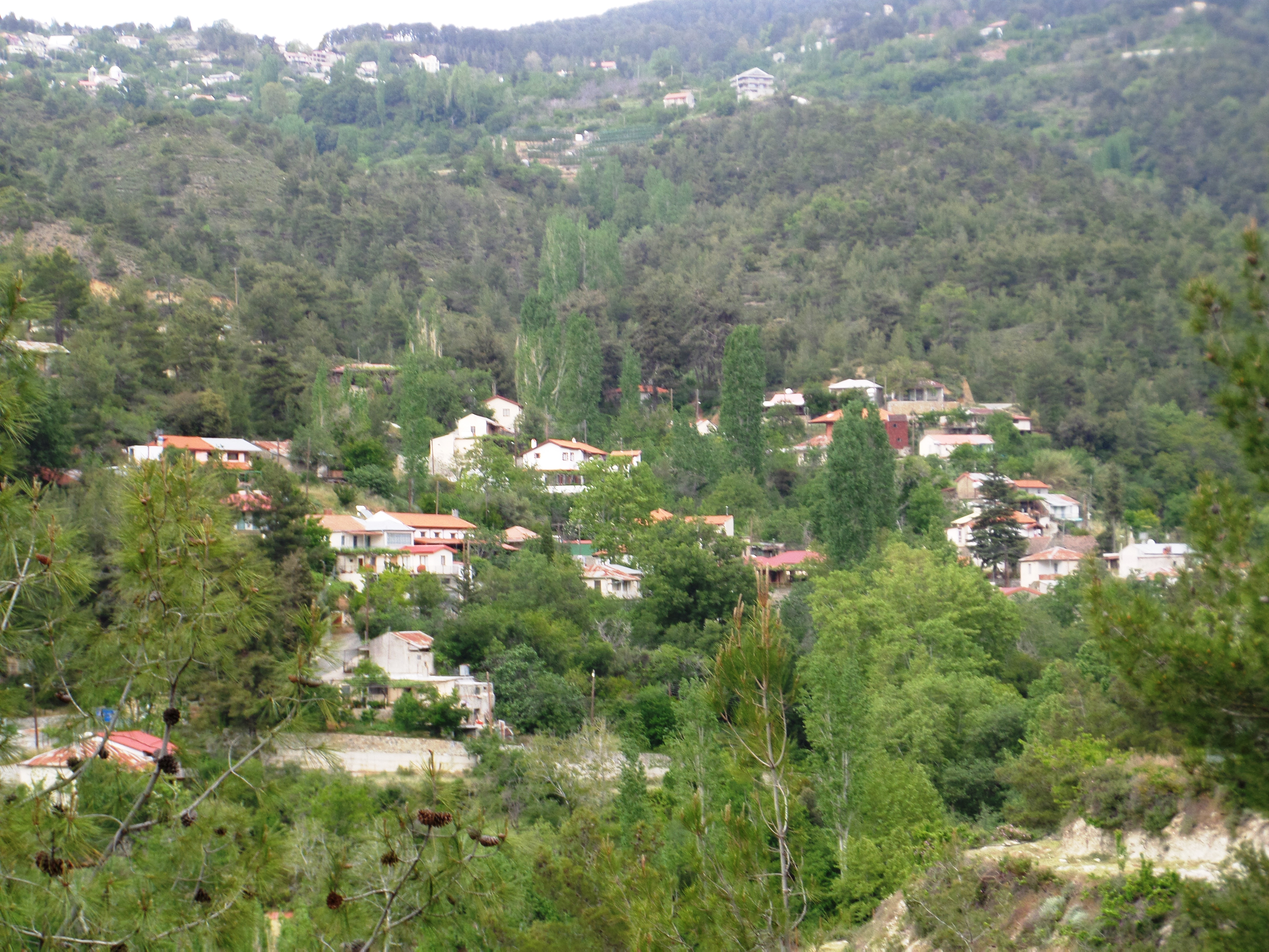 View of Palaiomylos.